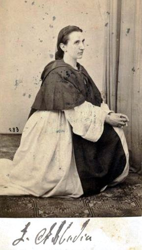 Portrait of Italian opera singer Luigia Abbadia (1821-1896)